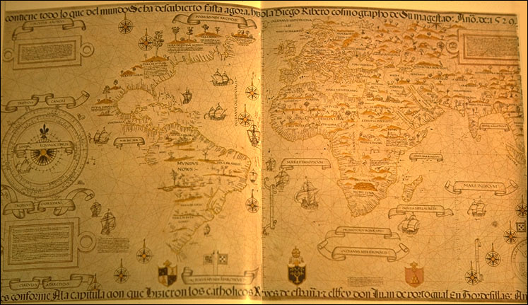 World Map by Diego Ribero, aka "Propoganda map" (1529), now at the Biblioteca Apostolica Vaticana, Vatican City